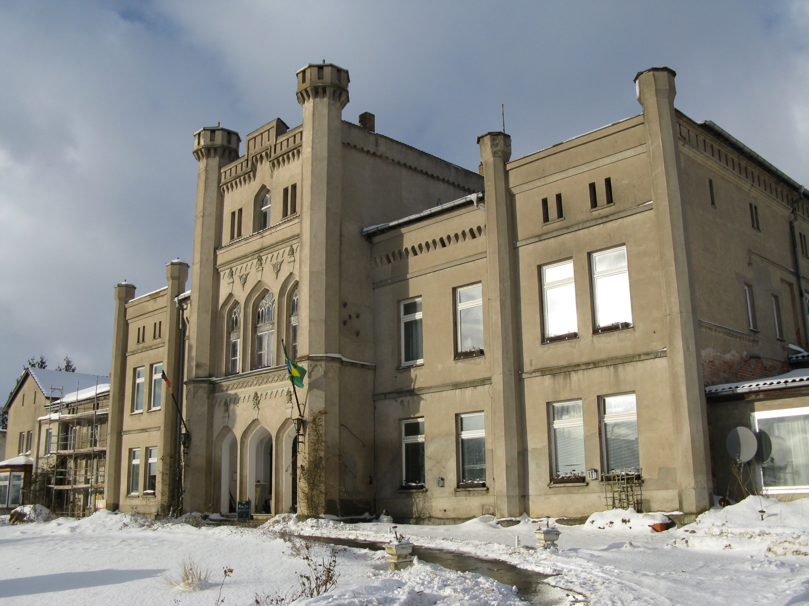 Manor house in Charlottenthal, disctrict Rostock, Mecklenburg-Vorpommern, Germany